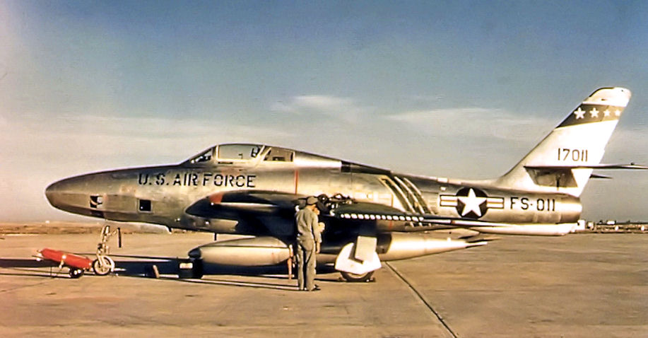 38th Tactical Reconnaissance Squadron - Republic RF-84F-25-RE Thunderflash - 51-17011